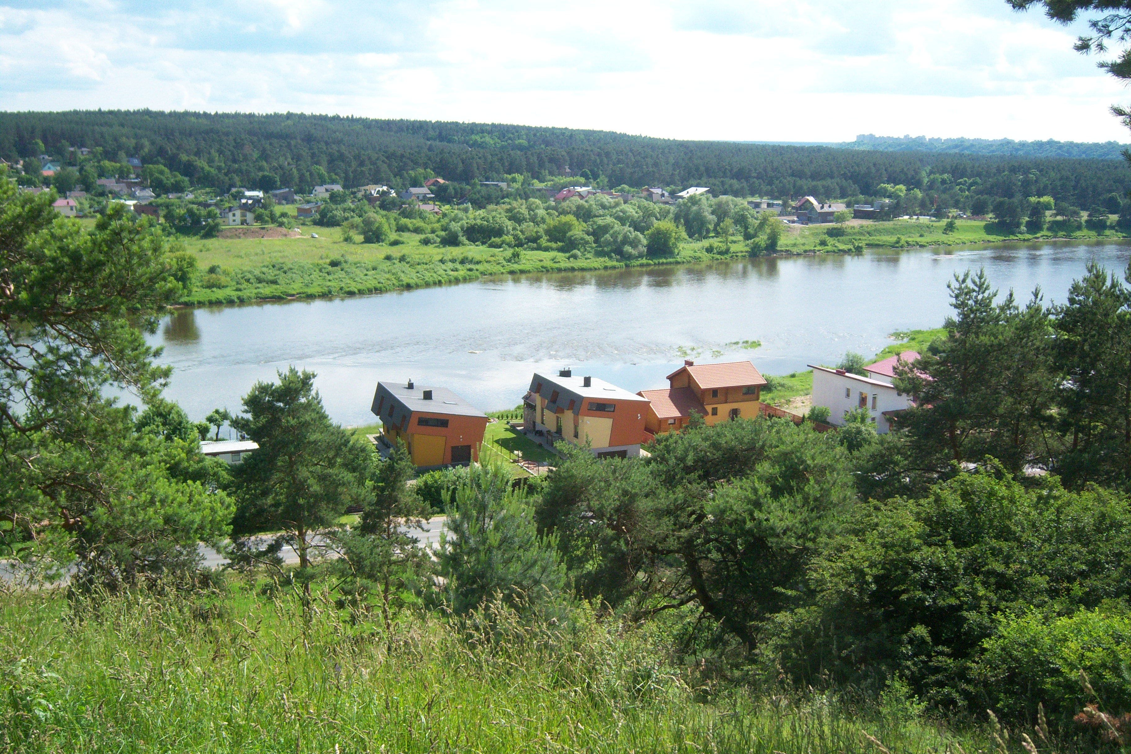 Saliai by Neris River, Kaunas district. View from Lentainiai Hillfort. Lithuania